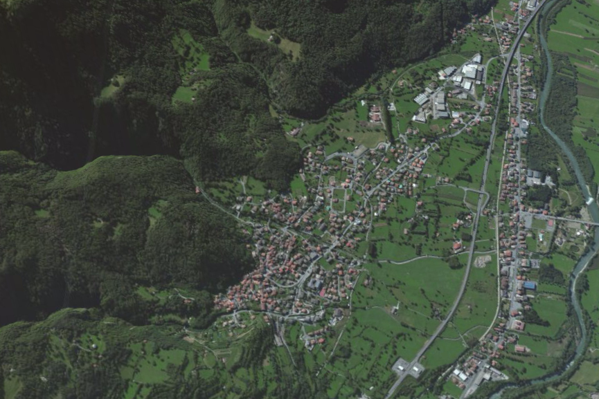 niardo veduta aerea